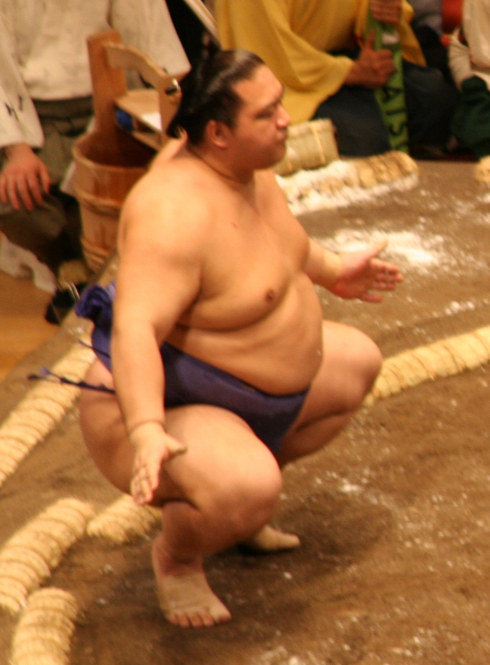 Sumo Wrestler Kaiō Hiroyuki on the first day the of May Tournament 2007 in Tokyo.